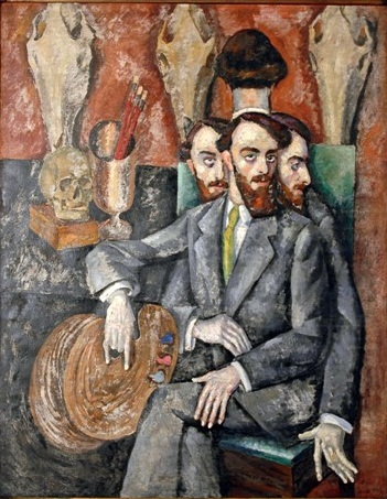 Adolph Milman